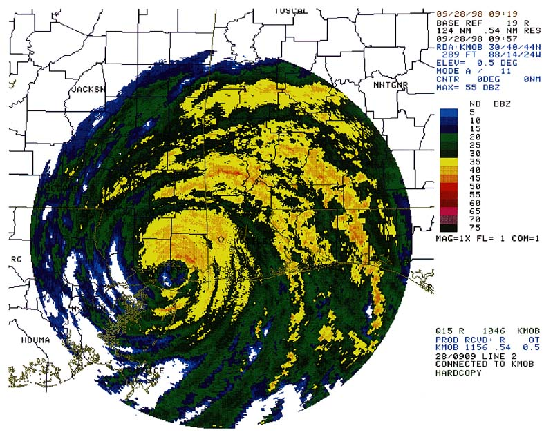 Hurricane Georges, as viewed by NEXRAD in Mobile at 4:57 am CDT on September 28, 1998. Contents 1 Copyright status 2 Source 3 Licensing 4 Original upload log Copyright status Source Image courtesy NOAA